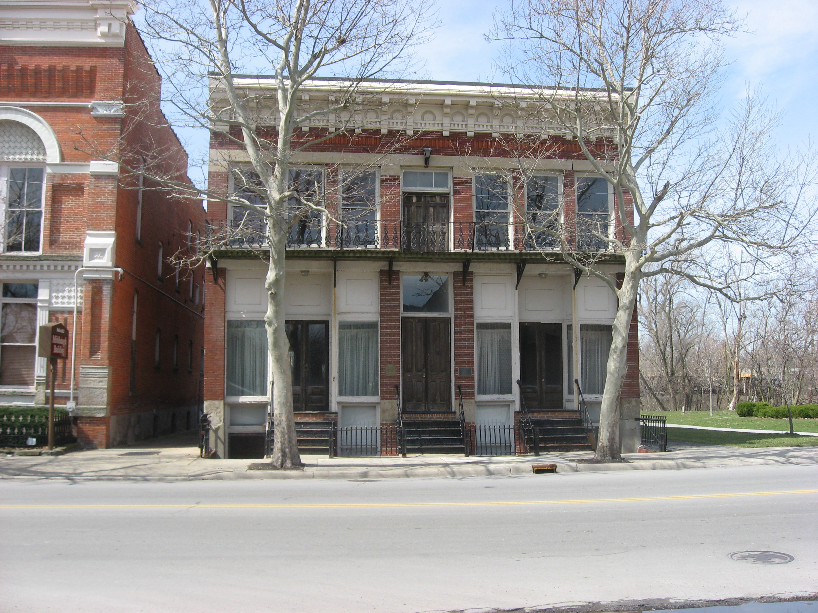 Front of the Lima Cleaning and Pressing Company Building, located at 436-438 S. Main Street in Lima, Ohio, United States. Built in 1890, it is listed on the National Register of Historic Places.